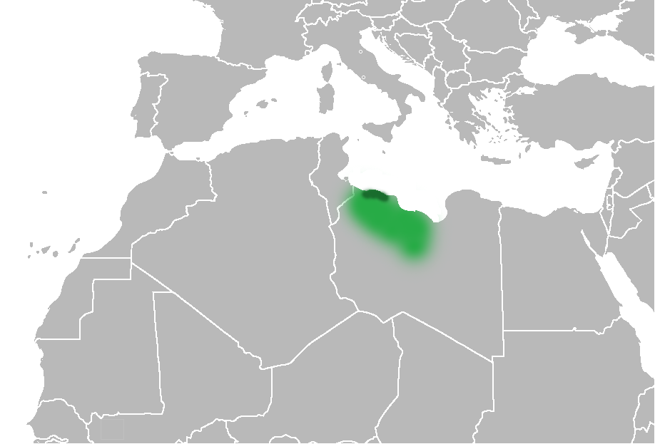 Map of the historical Tripolitania region (in present day northwestern Libya and northeastern Tunisia) and the historical Ottoman-Italian-early Independence state/province (within present day Libya). The Ottoman Turks conquered the North African territories (which make up present day Libya) in the mid-16th century, and the three States or "Wilayats" of Tripolitania (northwest), Cyrenaica (northeast), and Fezzan (south) remained part of their empire - with the exception of the virtual autonomy of the Karamanlis. The Karamanlis ruled from 1711 until 1835 mainly in Tripolitania, but had influence in Cyrenaica and Fezzan as well by the mid 18th century. Partial map of the "Arab Islamic Republic" - proposed by Muammar al-Gaddafi for a union between Libya and Tunisia - in 1972/1974; and of the "United States of North Africa" - proposed by President Habib Bourguiba for Tunisia, Algeria and Libya - in 1973.